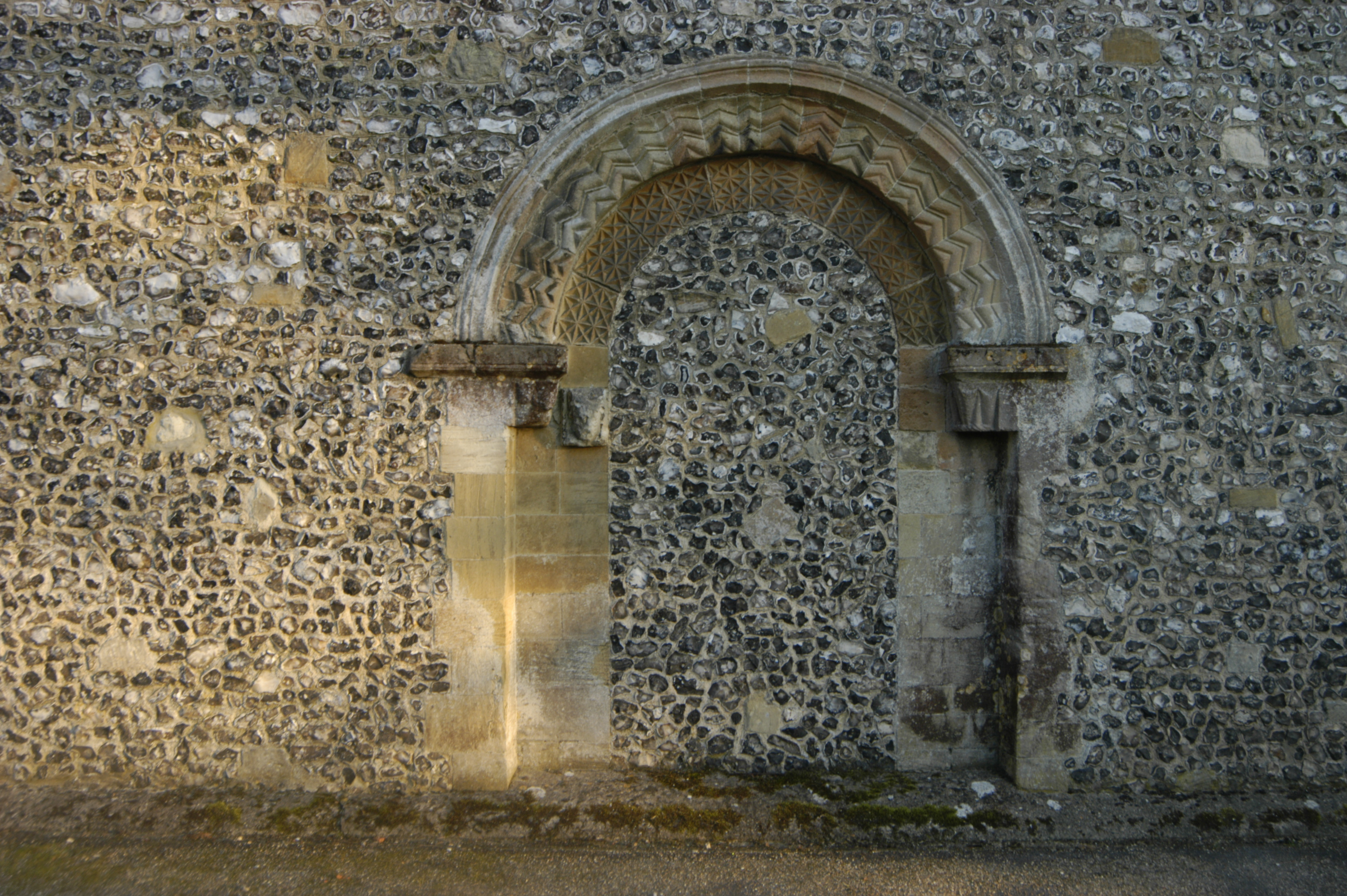 ), of filled in Norman northern doorway of St. Mary's church, Kingsclere, Hampshire. Flint added in C19th.